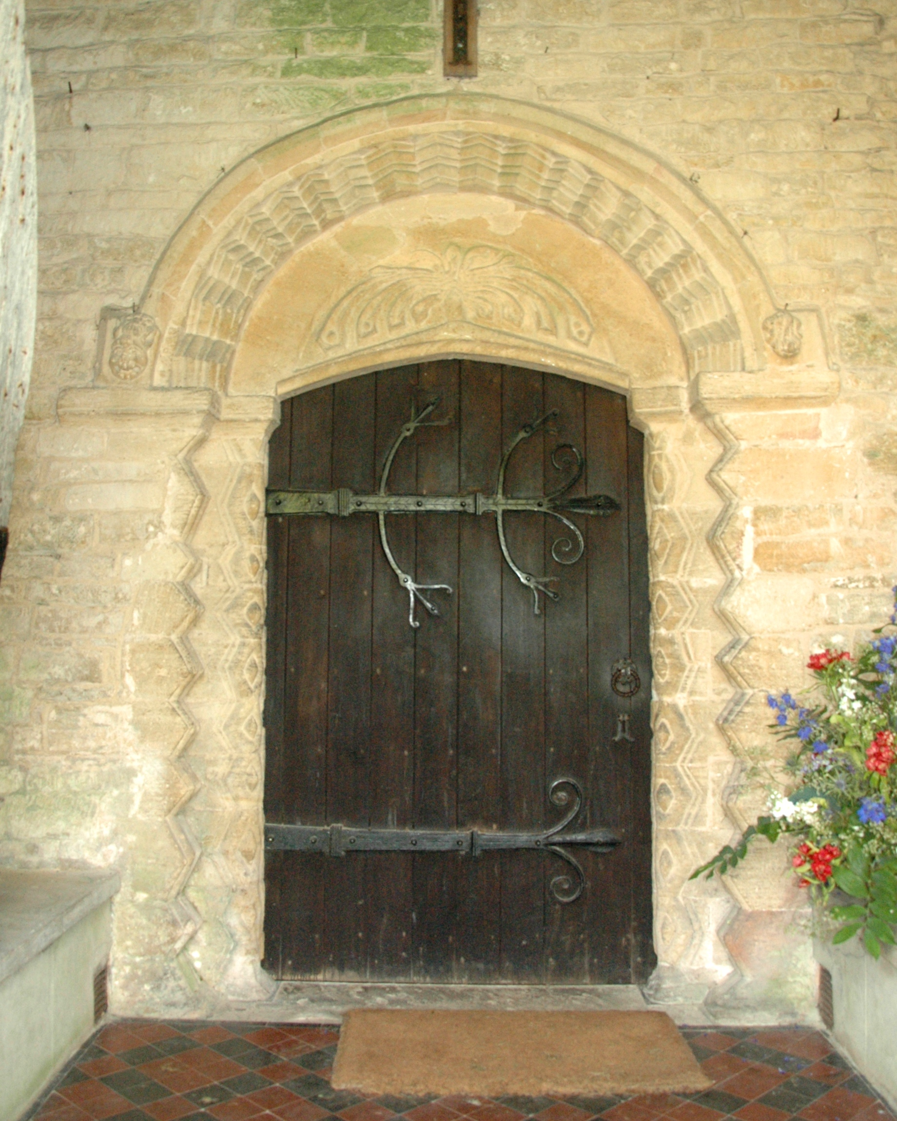 Church of England parish church of All Saints, Middleton Stoney, Oxfordshire: Norman south doorway and ancient door